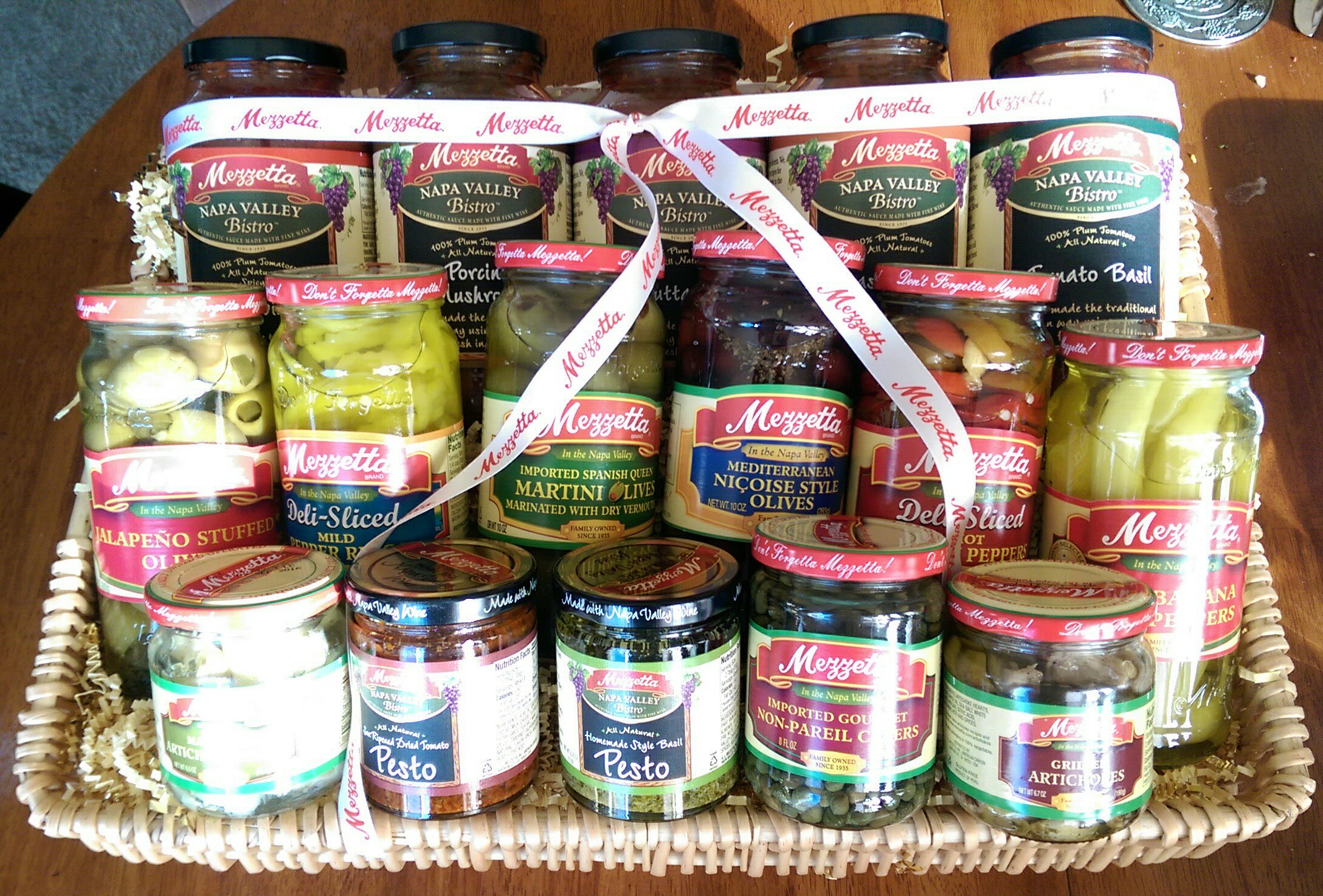 A gift basket of products made by Mezzetta of American Canyon, California. Photo by Jim Heaphy.